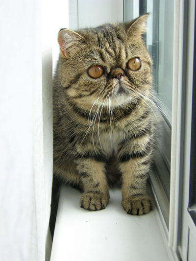 Brown Exotic Shorthair Female Kitten.